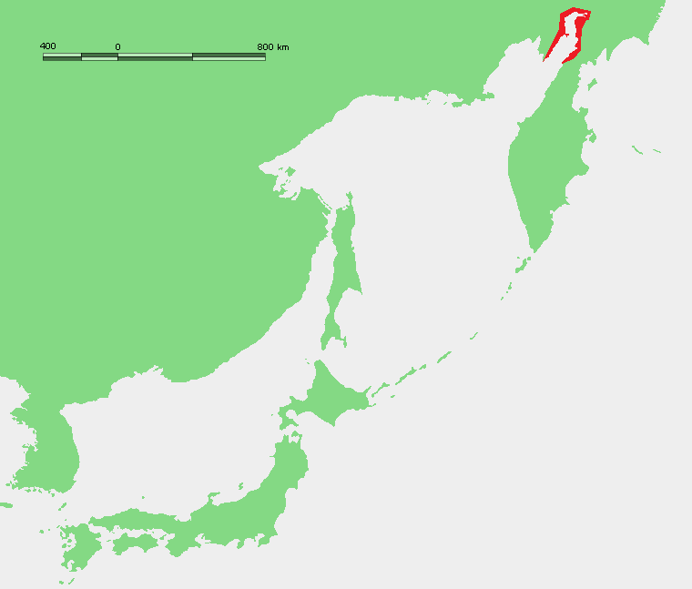 Location map of Penzhina Bay (red) — in the northeastern Sea of Okhotsk. Located between the northwestern coast of Kamchatka Peninsula (Kamchatka Krai) and the Russian mainland (Magadan Oblast). Penzhina Bay is an upper right arm of Shelikhov Bay.